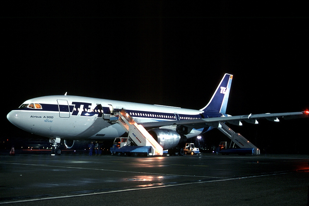 "Aline"